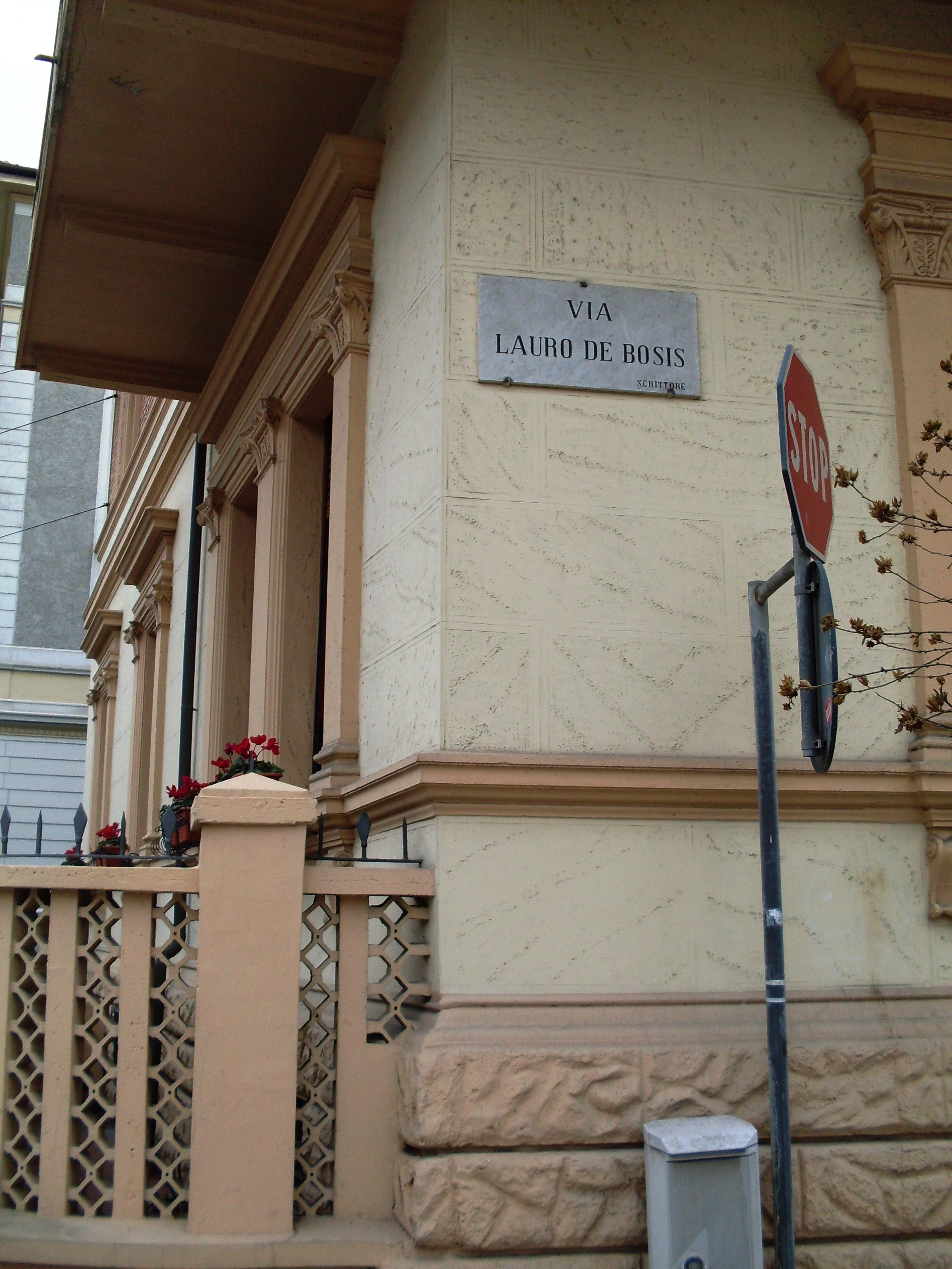 Italy Ancona - Lauro De Bosis Street - plate